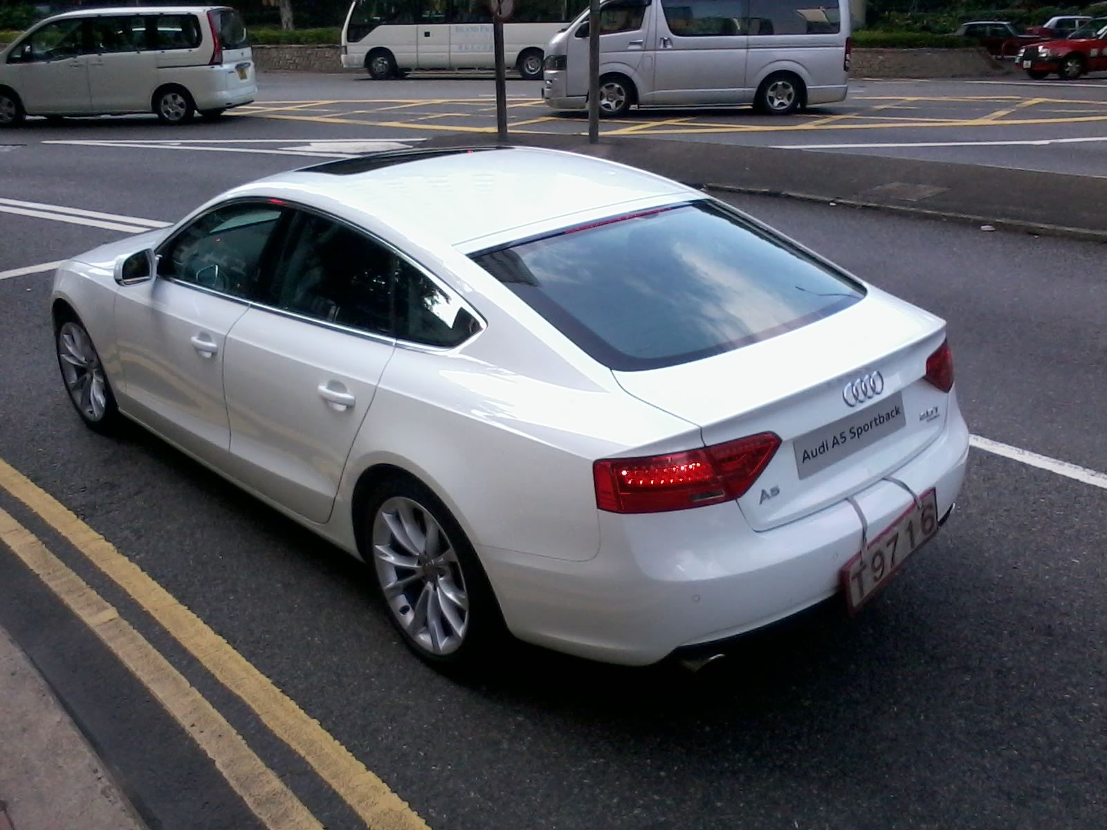 November 2012 in Admiralty, Hong Kong